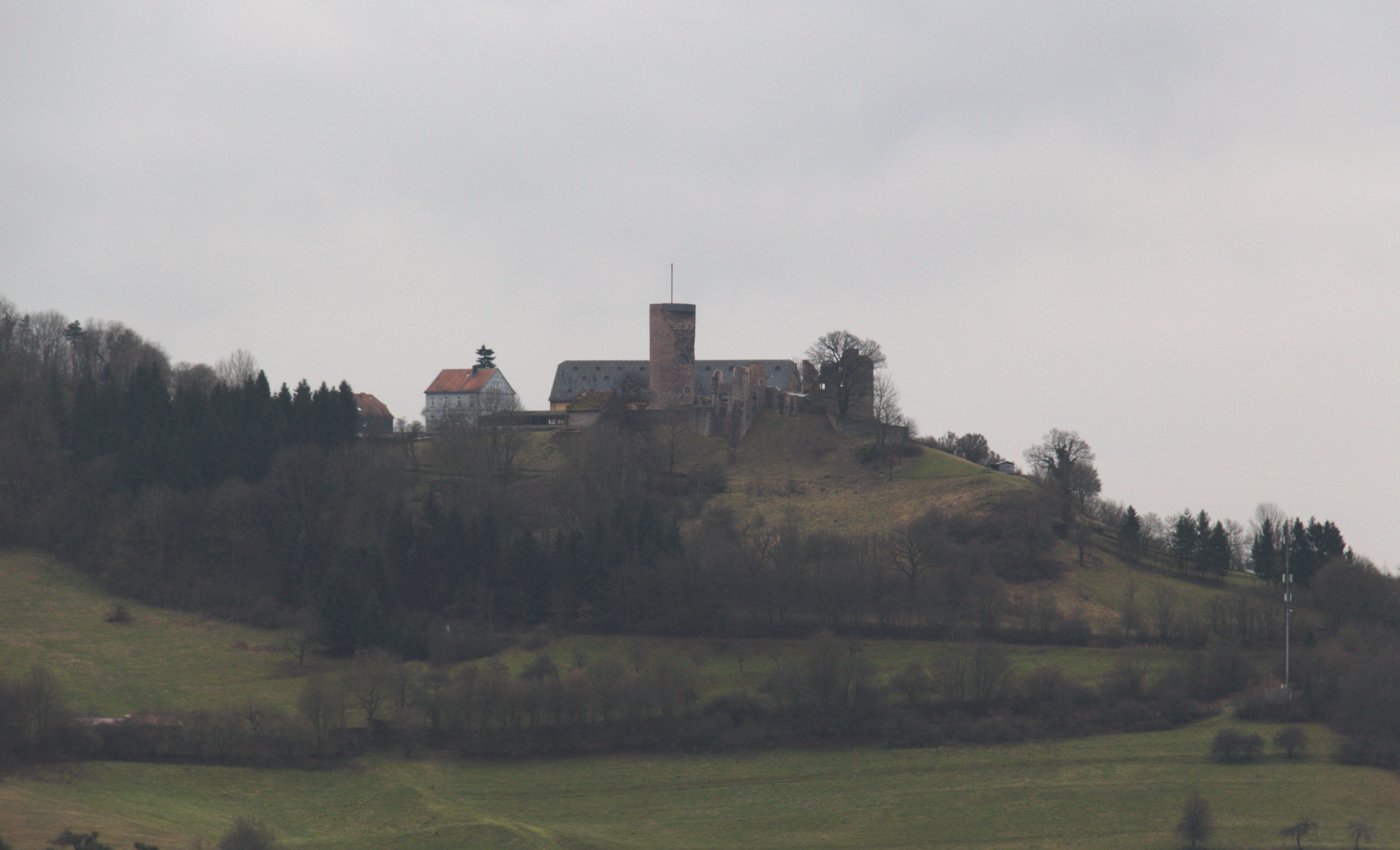 Burg Schwarzenfels and part of SCI "Magerrasen bei Weichersbach" near Schwarzenfels, Sinntal, Hesse, Germany